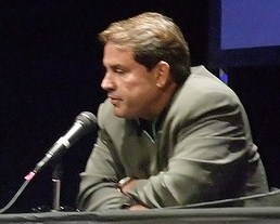 Rick Sanchez of CNN, responds to Robert Scoble who called on CNN to task for the lack of coverage of the Iran election protests on Saturday, June 13. License on Flickr (2011-01-07): CC-BY-2.0 Flickr tags: Twitter, 140conf, 140 Characters, Robert Scoble, Rick Sanchez